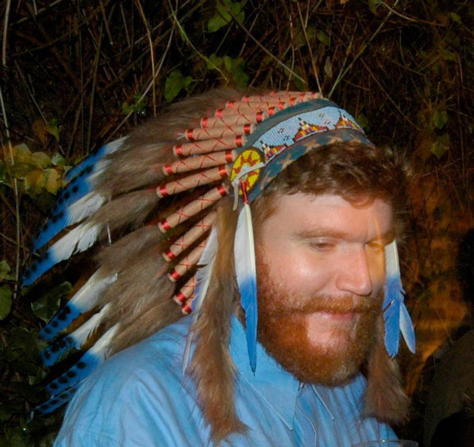 A non-Native person wearing a Native American war bonnet as a "fashion accessory" is commonly cited as an example of cultural appropriation.